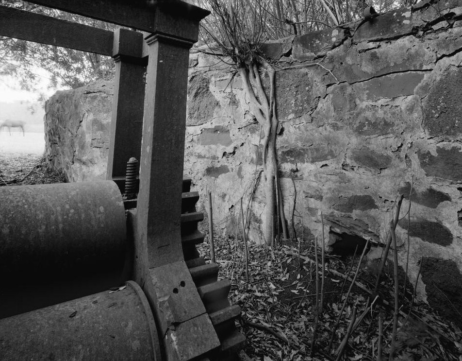 R. W. Meyer Sugar Mill, State Route 47, Kualapuu, Molakai (Maui County, Hawaii) Three roller sugar mill This image or media file contains material based on a work of a National Park Service employee, created as part of that person's official duties. As a work of the U.S. federal government, such work is in the public domain in the United States. See the NPS website and NPS copyright policy for more information. Creator: U.S. Department of the Interior, National Park Service, Historic American Engineering Record. Survey number HAER HI,5-KALPU,1-2 Source: U.S. Library of Congress, Prints and Photographs Division, "Built in America" Collection. Copyright: "The original measured drawings and most of the photographs and data pages in HABS/HAER/HALS were created for the U.S. Government and are considered to be in the public domain."